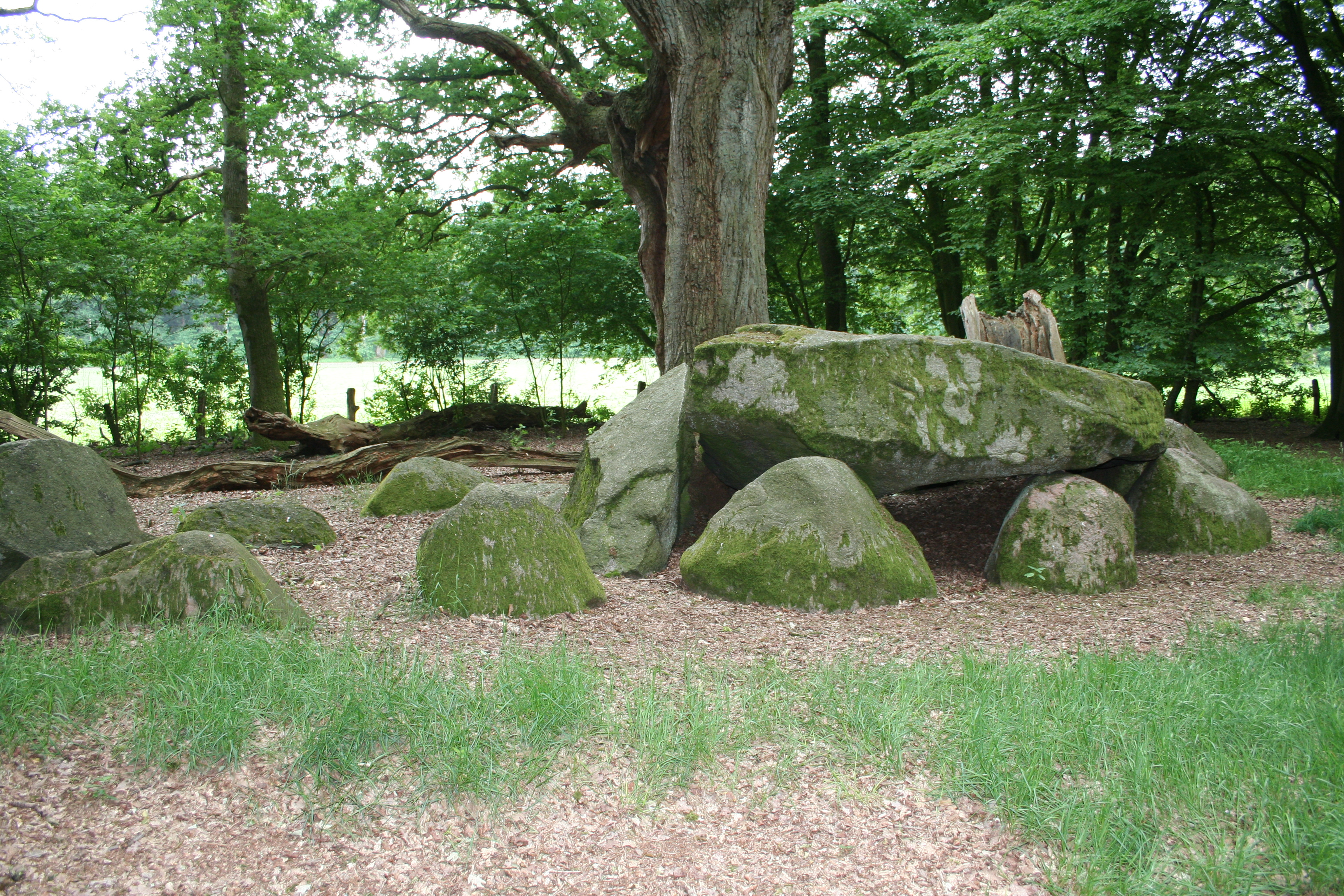 Megalithic tomb “Heidenopfertisch” at Engelmannsbäke